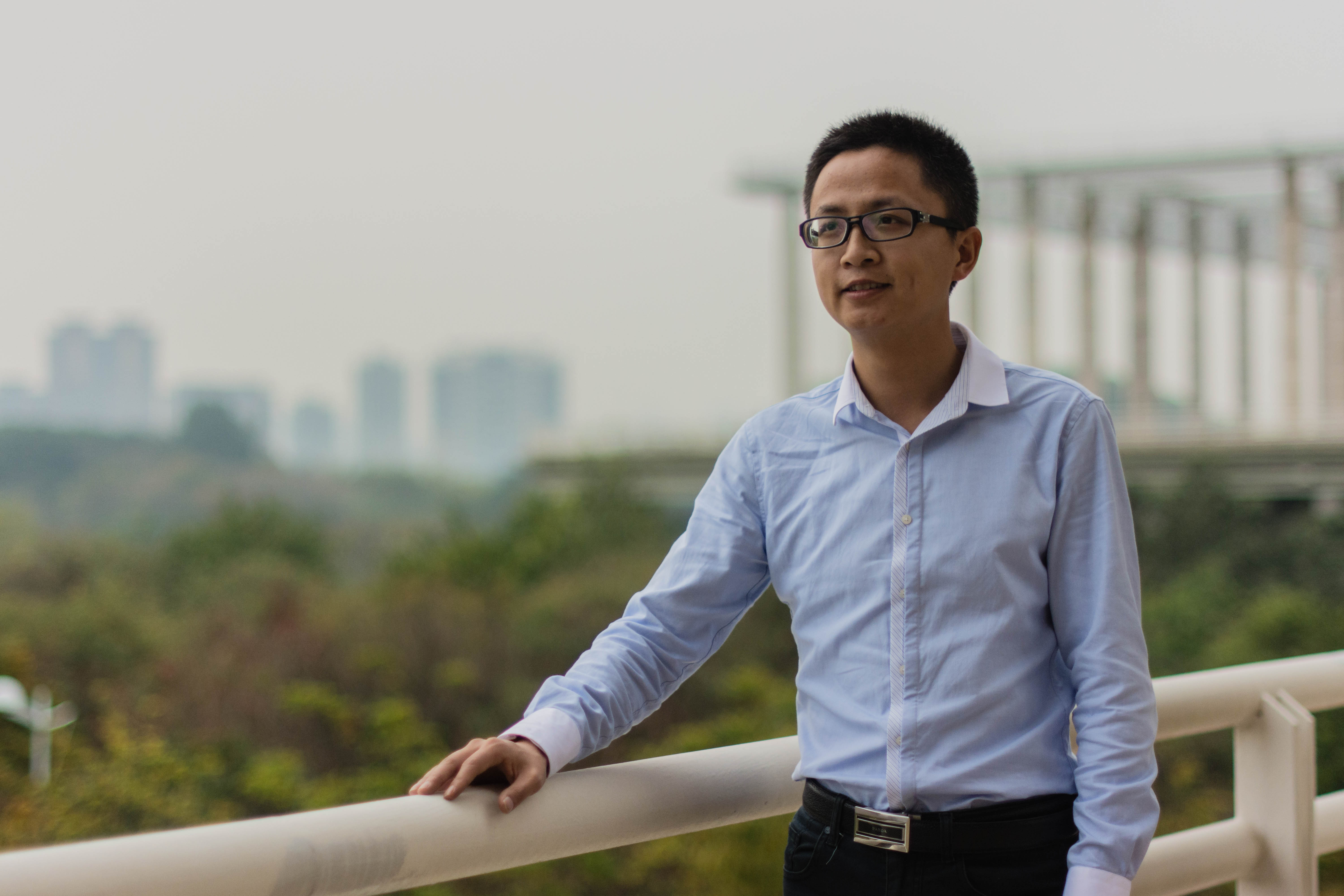 A picture of Xia Heng